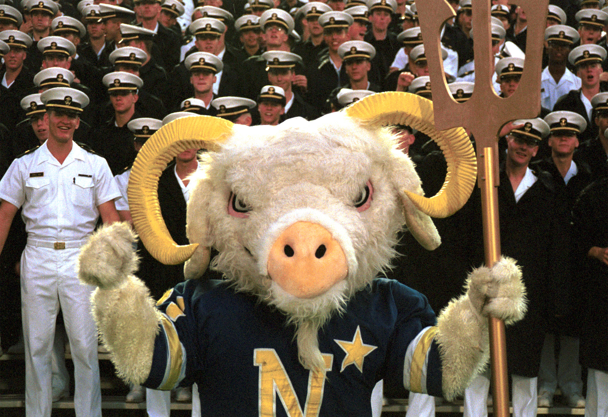 U.S. Naval Academy, Annapolis, Md., (Sep. 2, 2000) -- “Bill” the U.S. Naval Academy mascot leads the cheering section of Midshipmen, during the Academy’s opening game against Temple at Navy Marine Corps Memorial Stadium in Annapolis, MD. U.S. Navy photo by Lieutenant Junior Grade John Gay. (RELEASED)